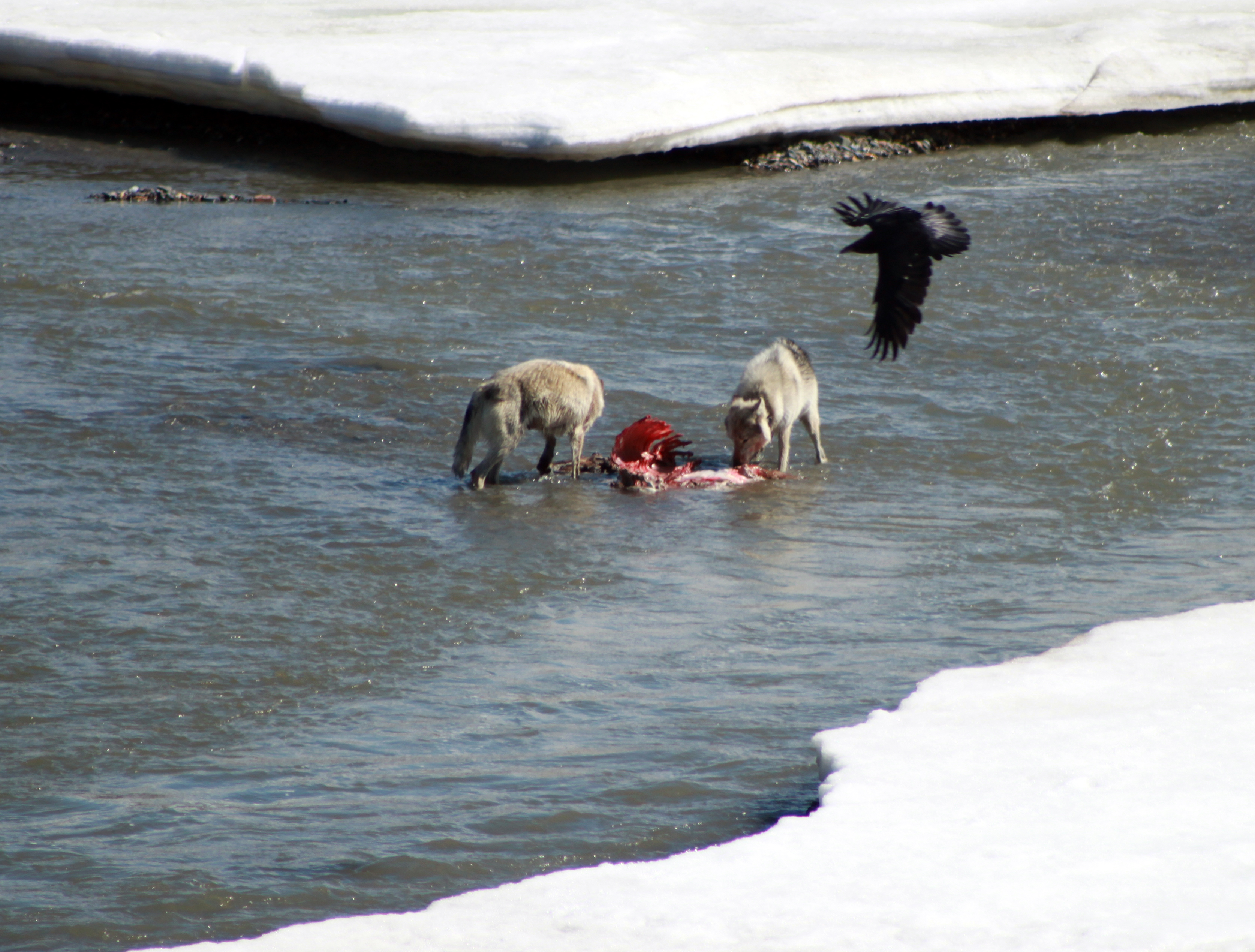 The cycle of life continues at Denali. Two wolves feast on caribou in the East Fork River as a raven hovers overhead. Sunday, May 22, 2011 (NPS Photo/Cindy Gonterman)